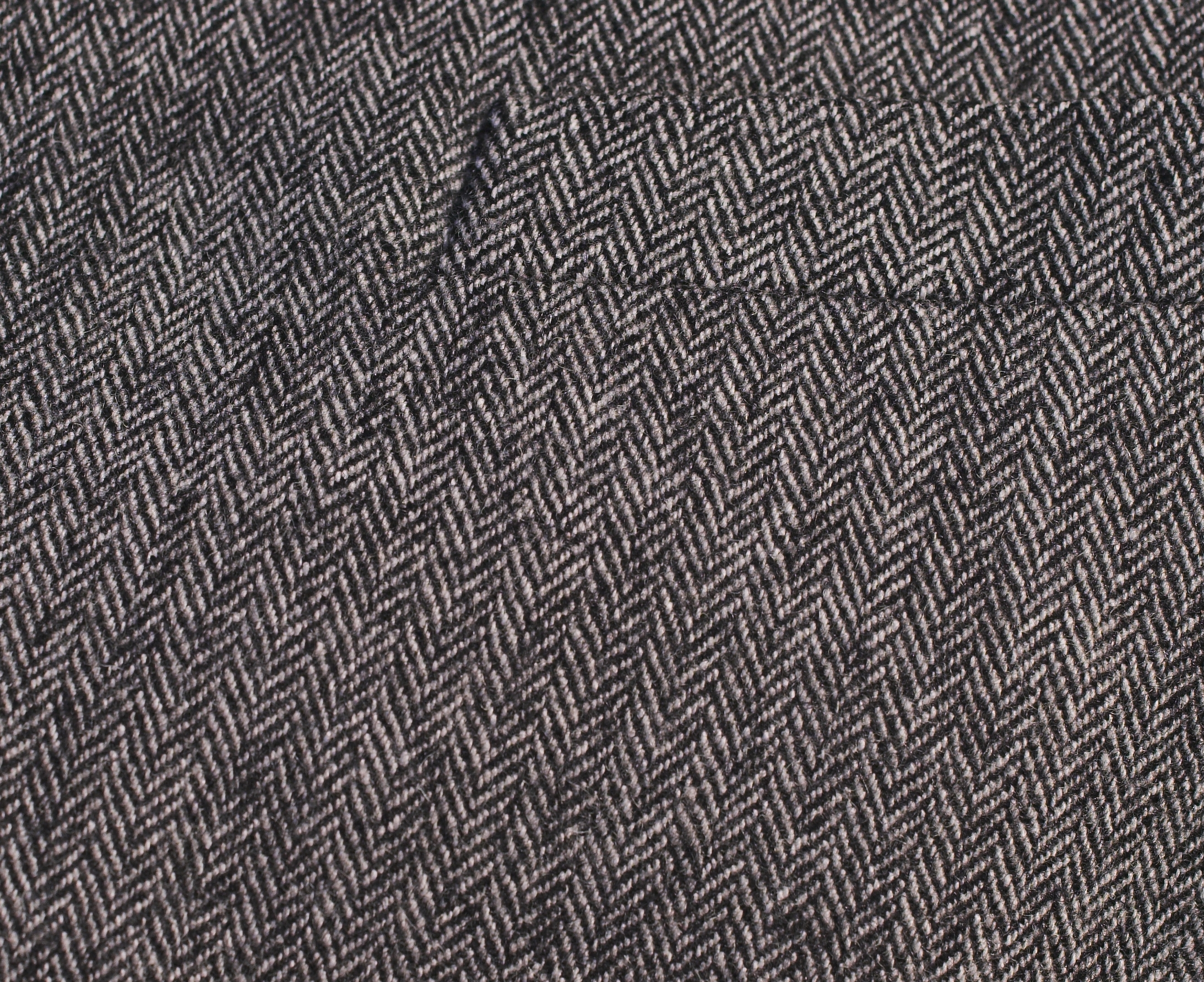 Herringbone pattern in cloth. Photo by Thermos.